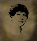 Passport images of the Parrish Sisters Williamina (left), Grace (right)